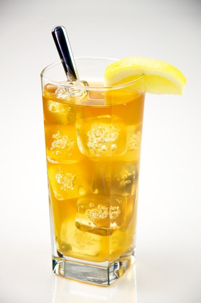 A Glass of iced tea.